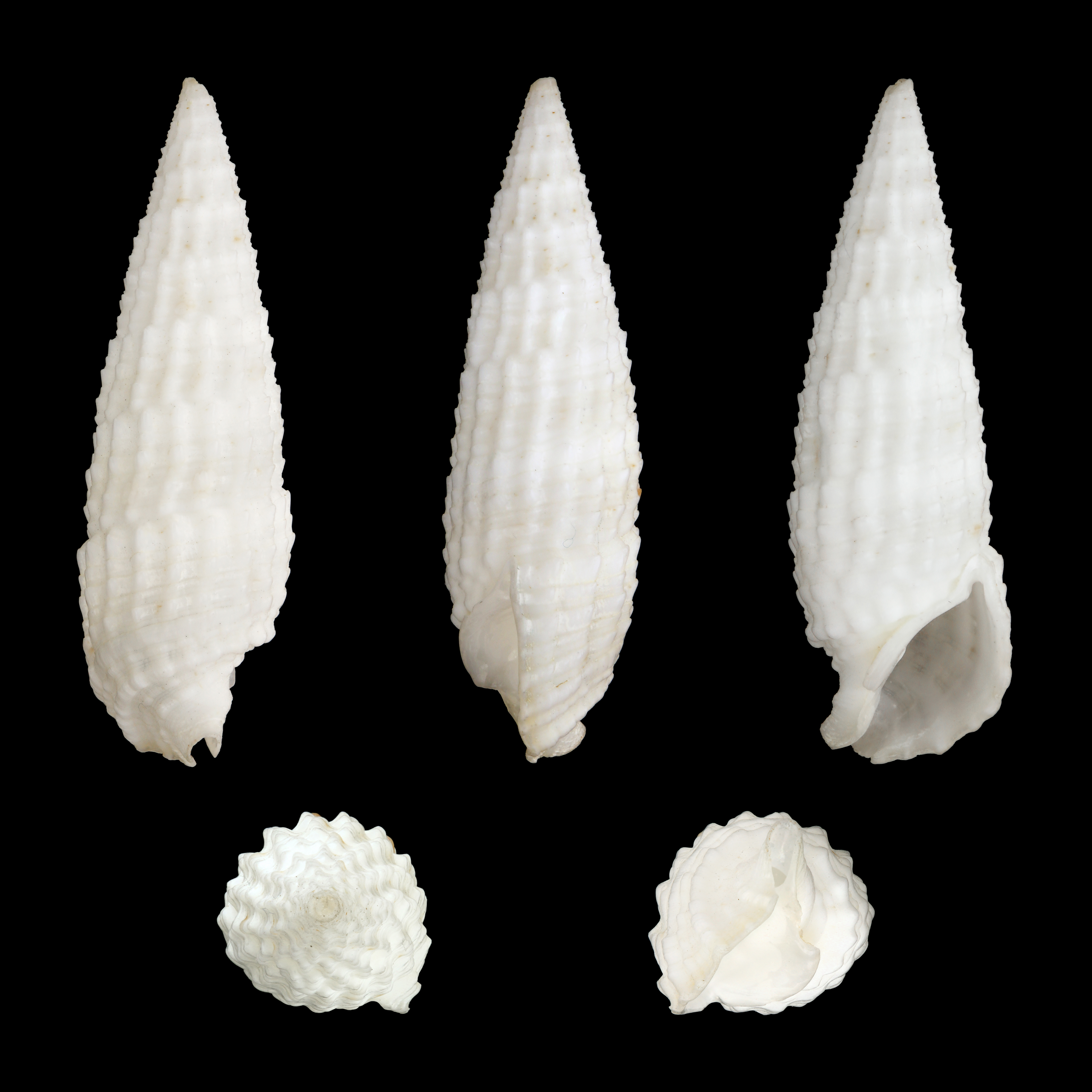 Rough Creeper; Length 3.2 cm; Originating from the Maldives; Shell of own collection, therefore not geocoded. Dorsal, lateral (right side), ventral, back, and front view.